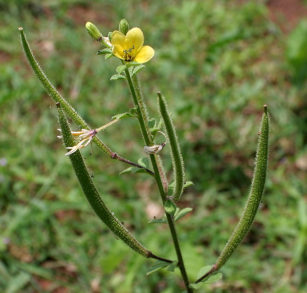 Asian spiderflower Cleome viscosa at Ananthagiri Hills, in Rangareddy district of Andhra Pradesh, India.